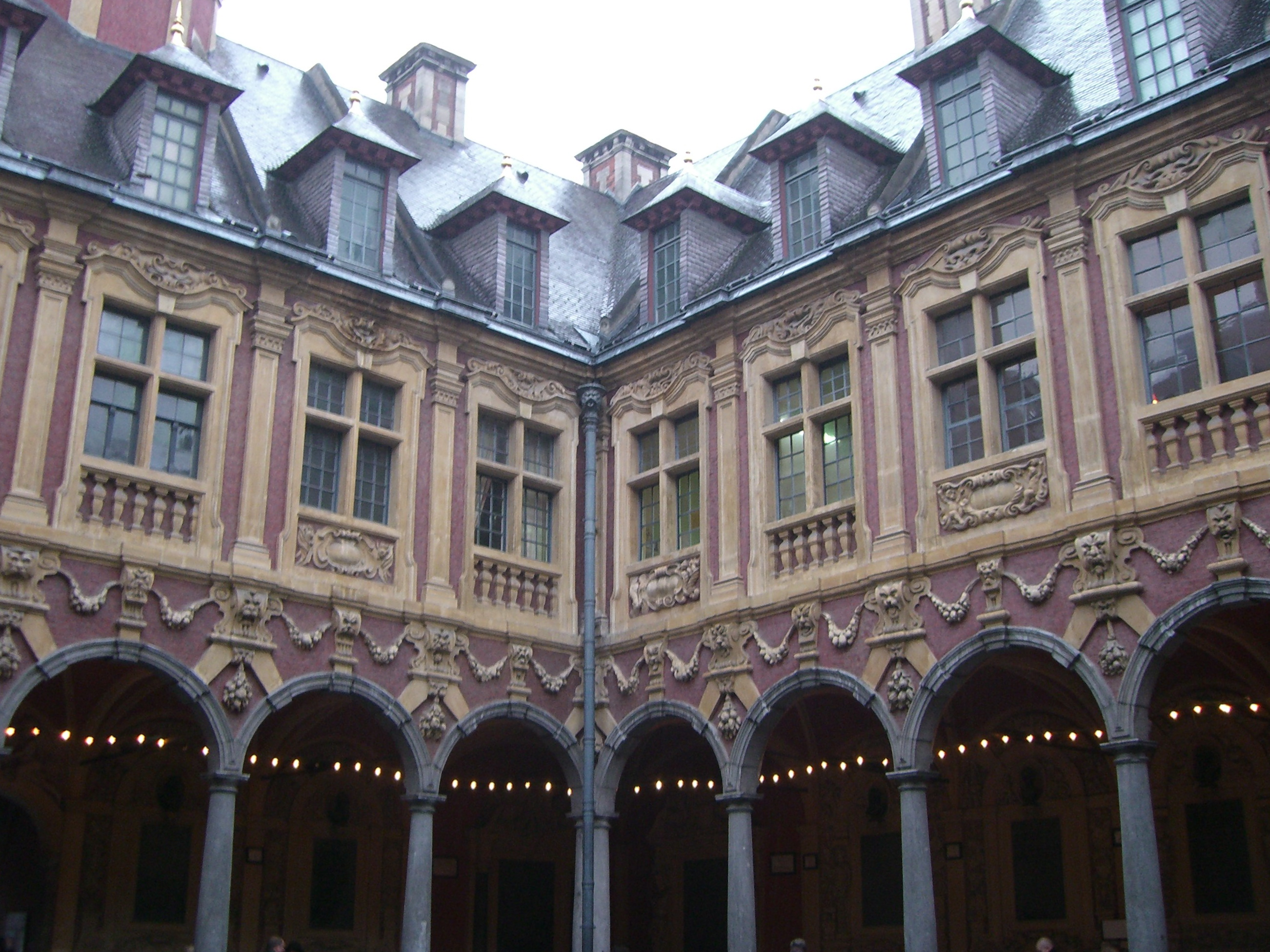 Lille stock exchange